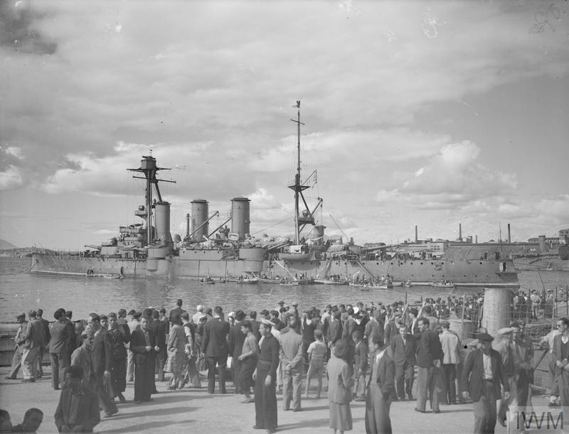 THE BRITISH NAVY BRINGS FOOD TO GREECE. 20 AND 21 OCTOBER 1944, PIRAEUS HARBOUR, ATHENS. BRITISH MERCHANTMEN ESCORTED BY SHIPS OF THE BRITISH AND GREEK NAVIES, BROUGHT THE FIRST FOOD SUPPLIES FOR THE RELIEF OF GREECE. (A 26352) Greek citizens watching their country's veteran heavy cruiser GEORGE AVEROFF after her arrival at Piraeus. Copyright: � IWM. Original